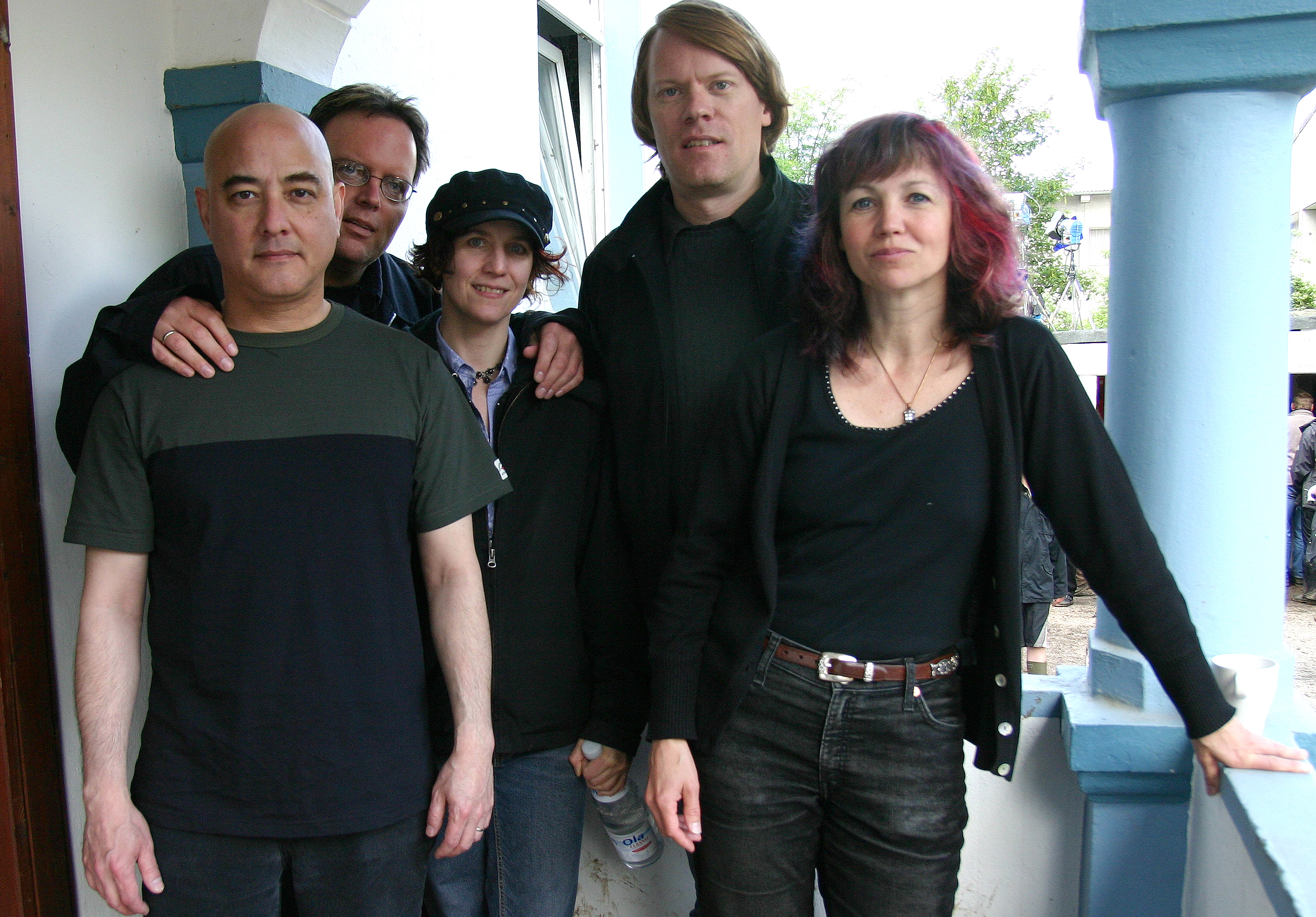 The Walkabouts, band from Seattle. Glenn Slater, Paul Austin, Terri Moeller, Chris Eckman, Carla Torgerson